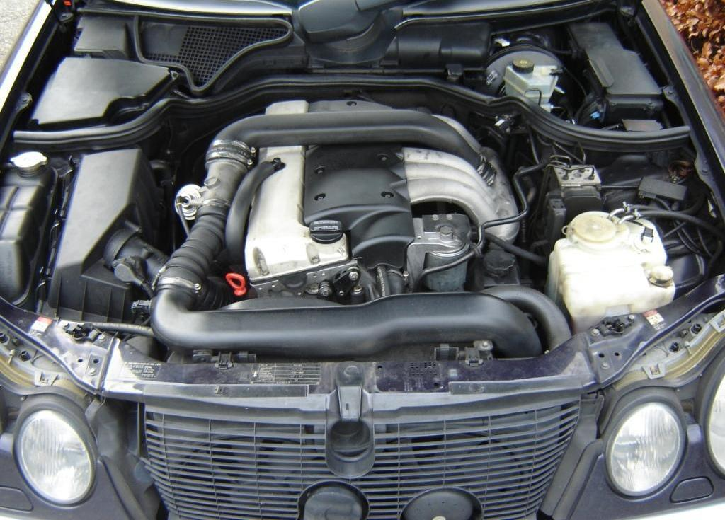 Mercedes-Benz OM602.982 Engine